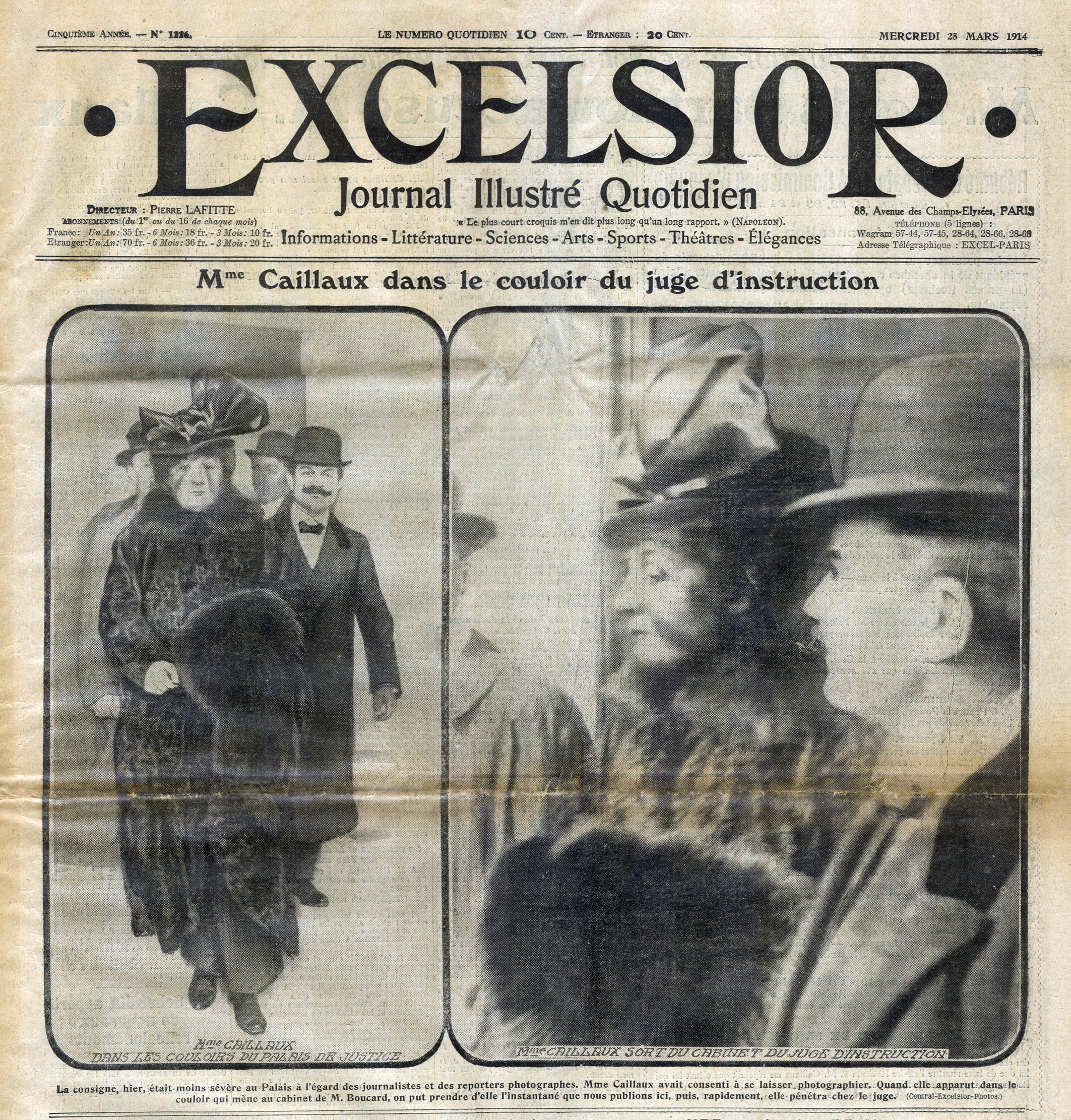 Front page of the newspaper Excelsior, March 25th 1914. Photographs of Mme Henriette Caillaux in Palais de Justice, Paris. (Detail)